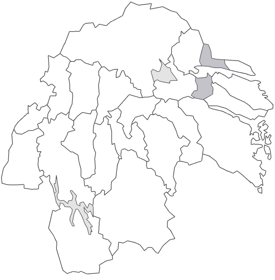 Map describing the location of Lösing Hundred in Östergötland County, Sweden.